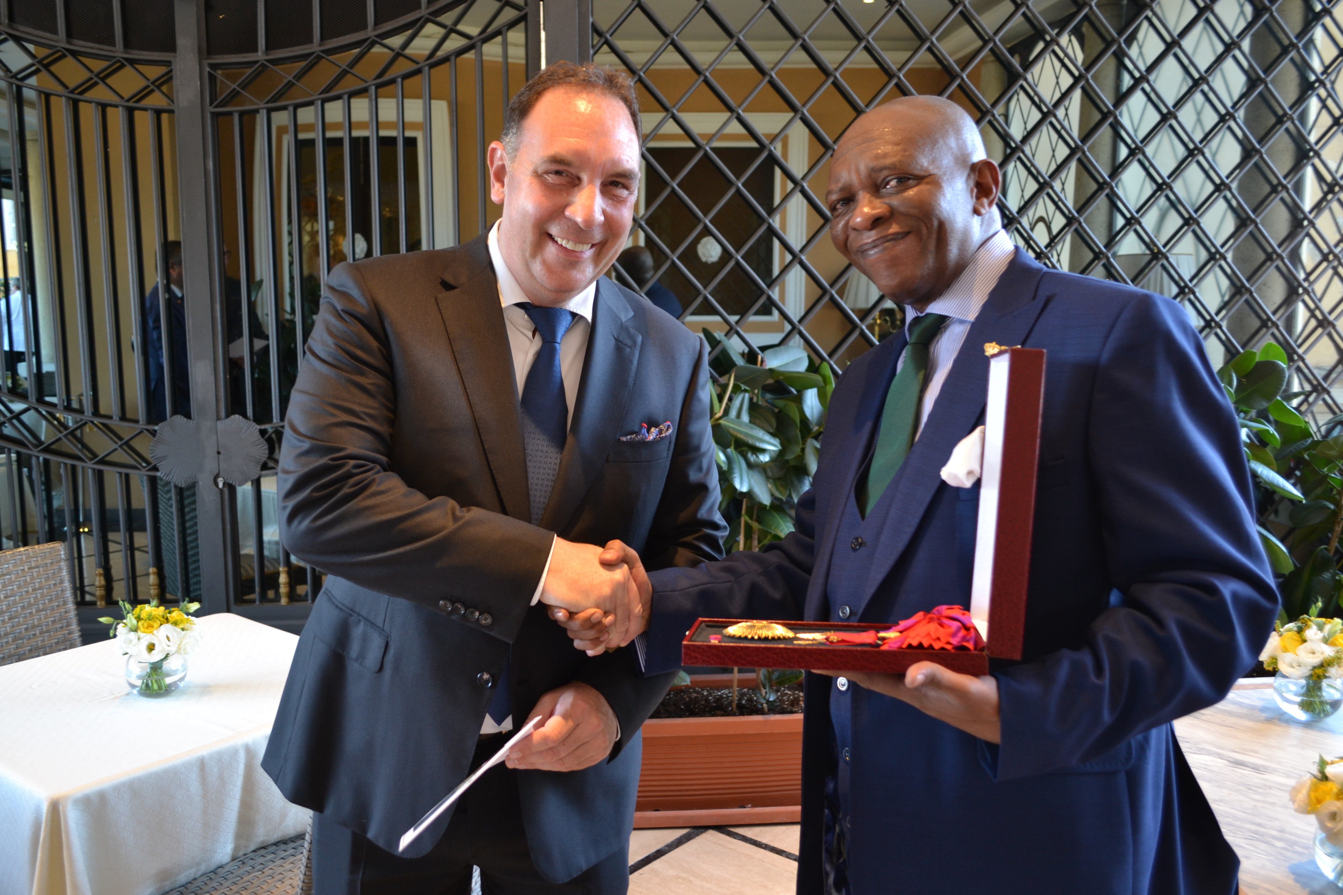 Grand Cross of the Royal Order of the Lion of Rwanda, received from King Yuhi VI of Rwanda at Residenza Paolo VI in State of Vatican on October 4, 2017.